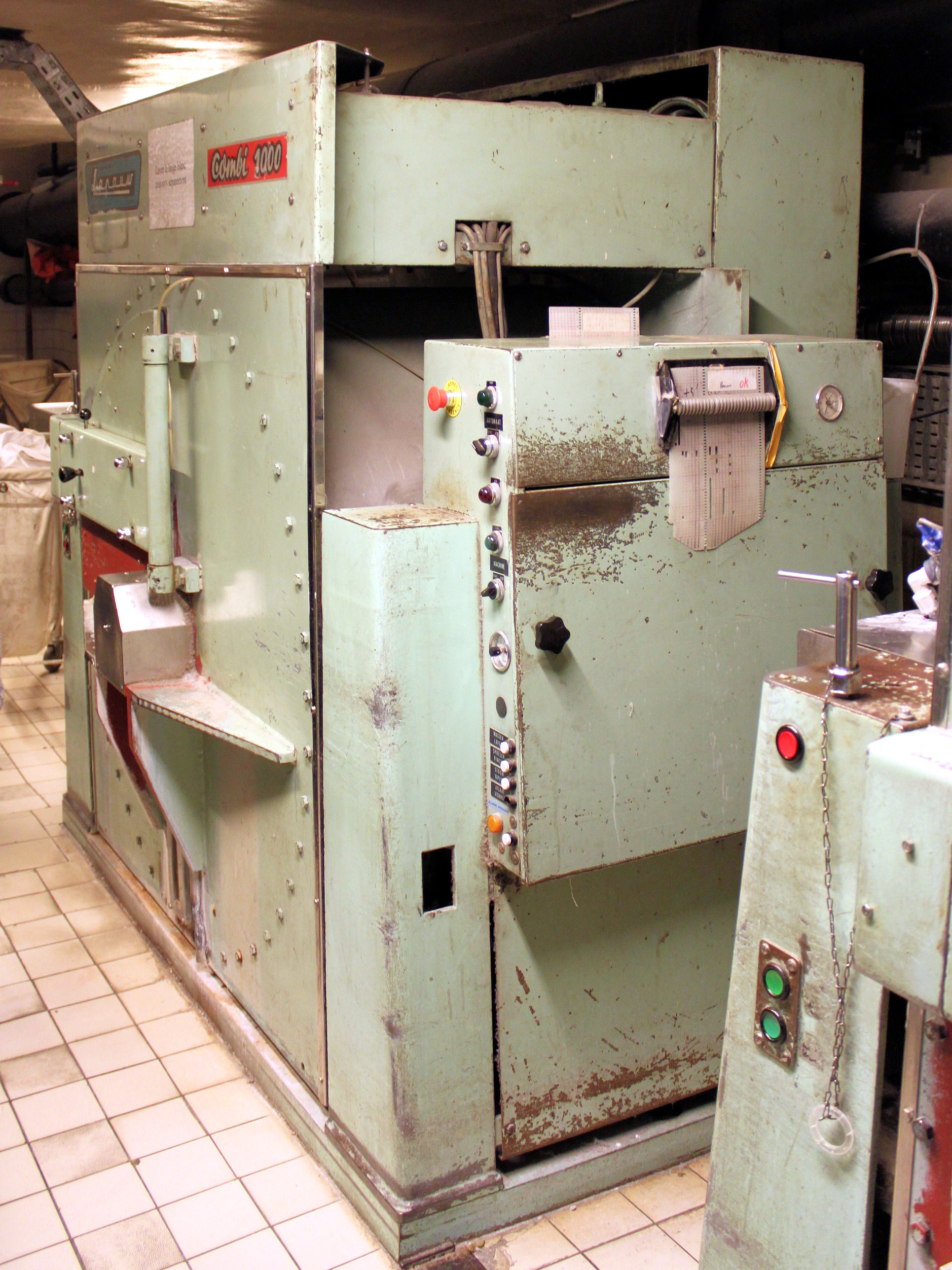 A Belgian Lapauw Combi 1000 industrial washer from the 80's, still in use in the laundry of hotel Hilton in Brussels.